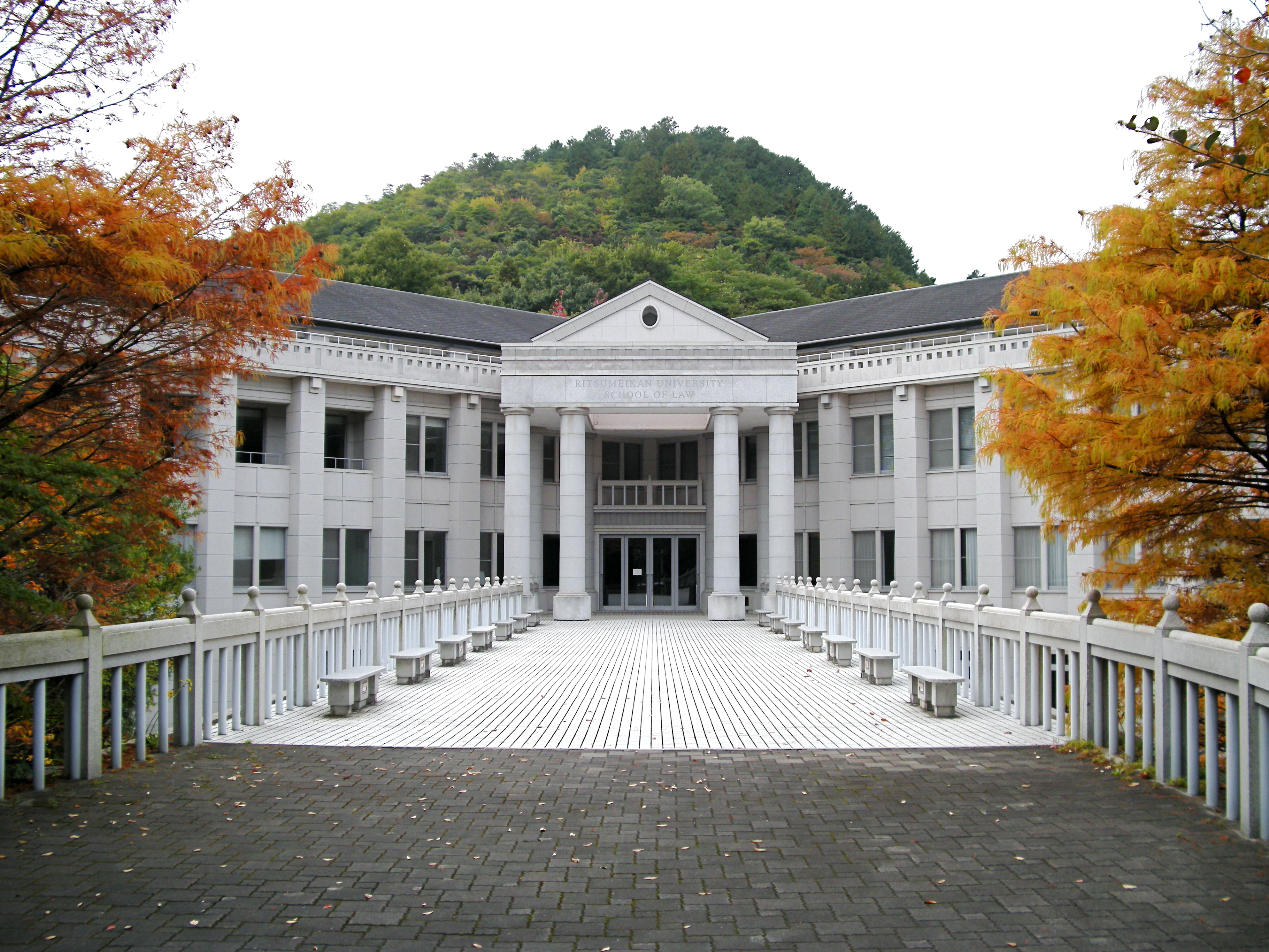 Saionji Memorial Hall (Ritsumeikan University, Kyoto, Japan)